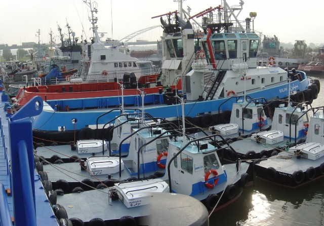 Damen Dutch builder of tug boats